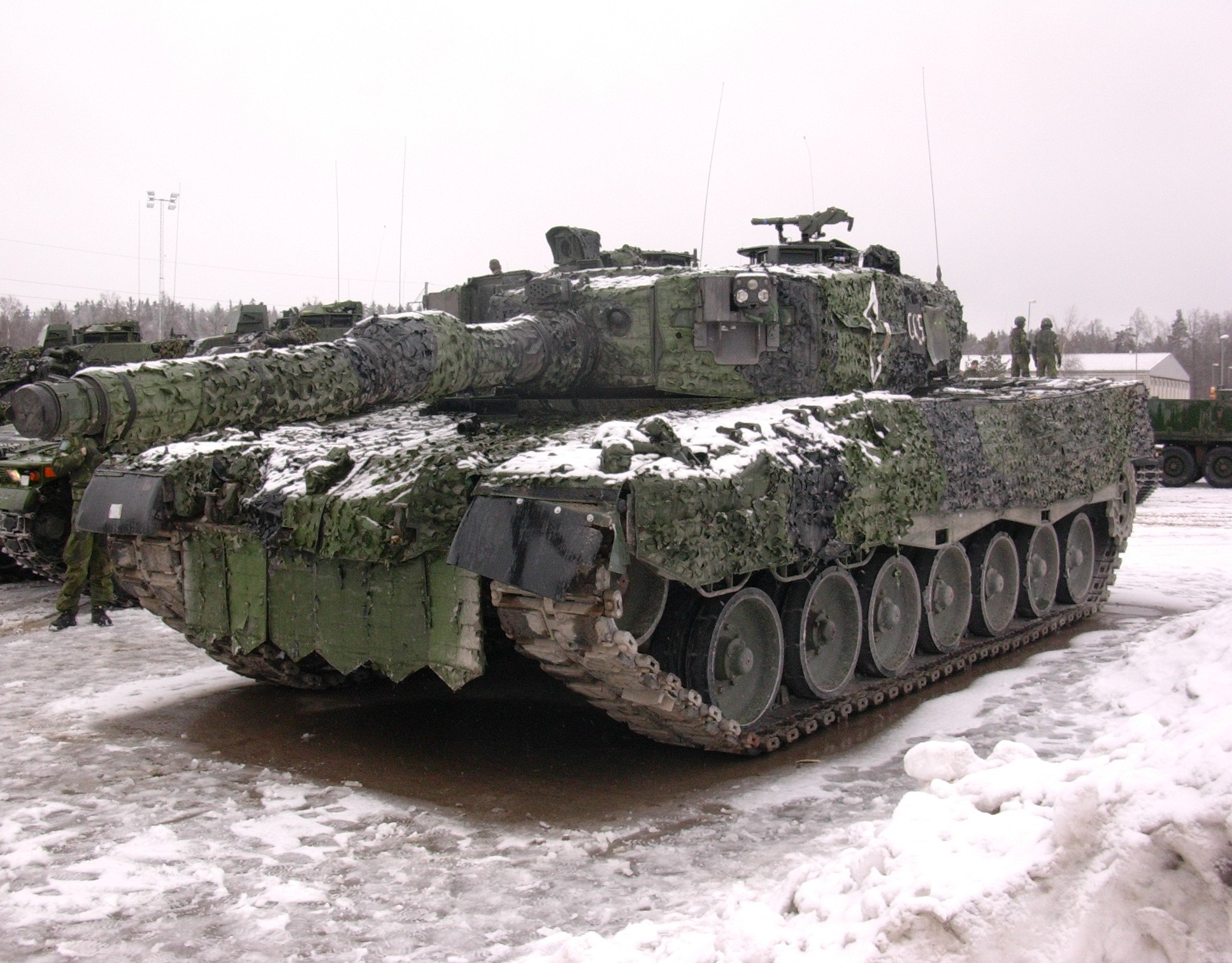 A Swedish Strv 121 (Leopard 2) tank in P 4 - Skaraborgs regiment. Photo taken by SNFB from P18, and therefore free to use.